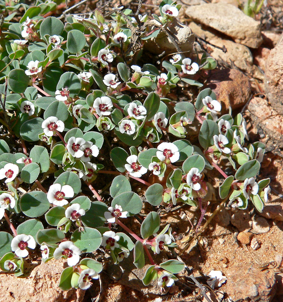 Chamaesyce albomarginata — Rattlesnake weed; flowers. In Red Rock Canyon of the Spring Mountains — in Clark County, southern Nevada.